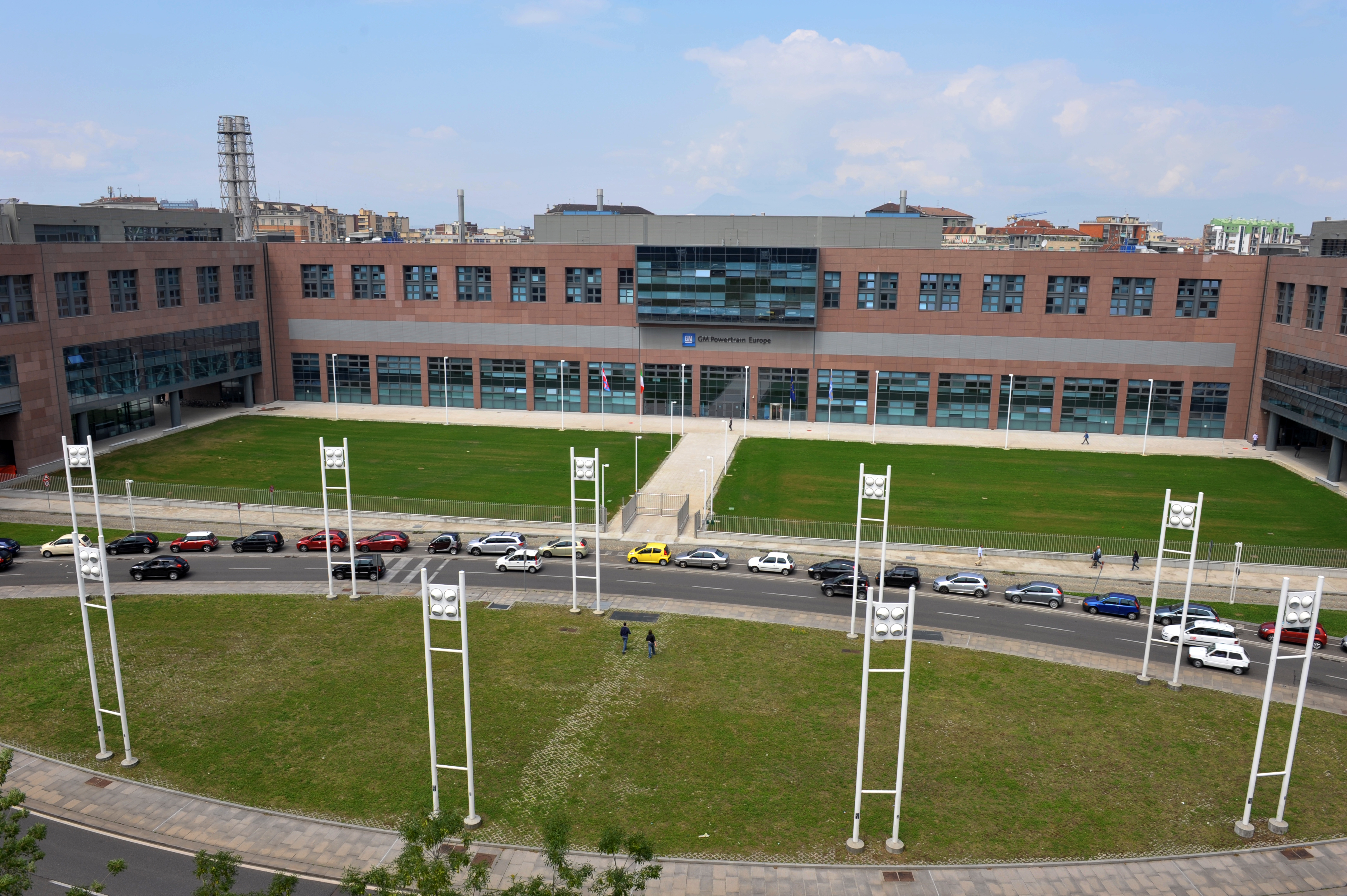 Politecnico di Torino new facilities Turin Italy